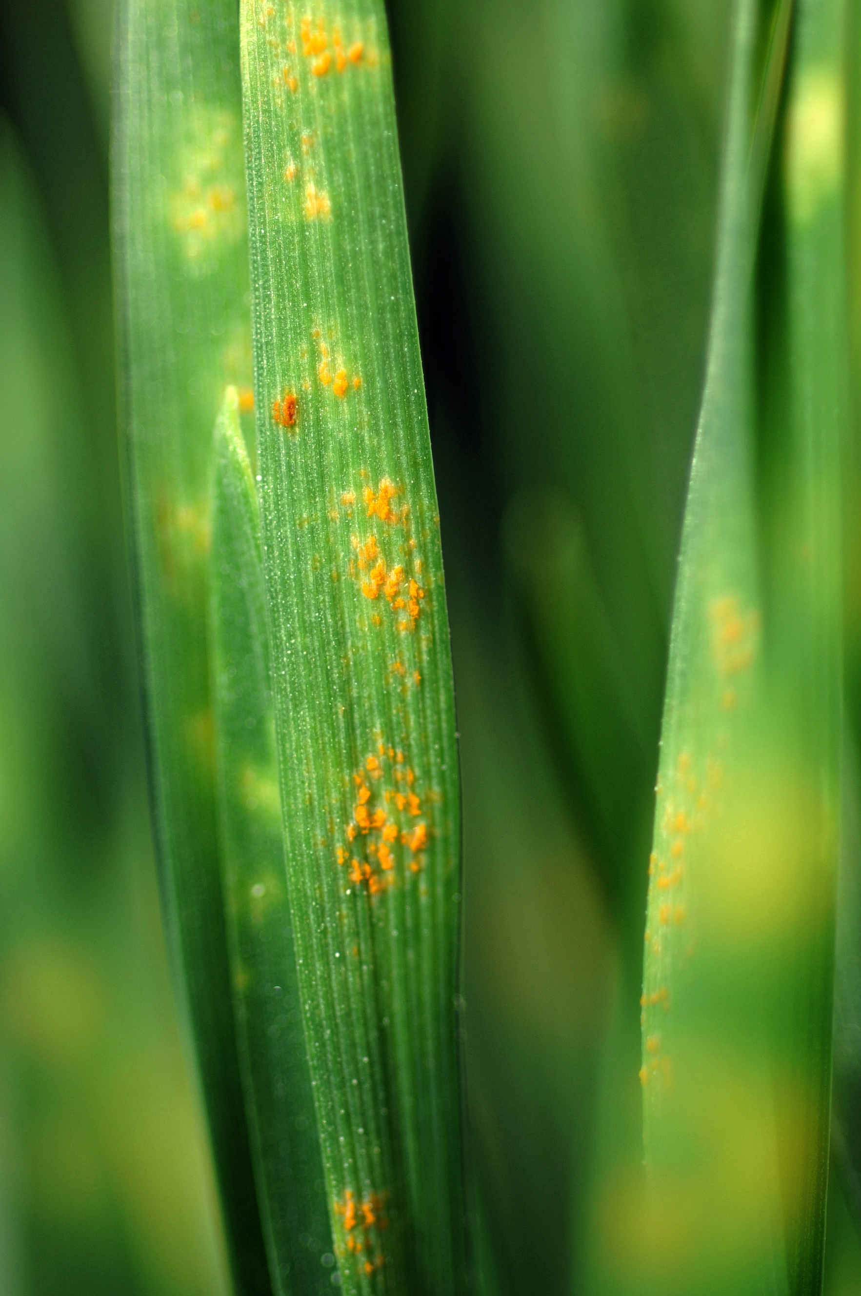 Powerful resistance genes have been located to tackle Stem Rust, the biggest disease threat to the Australian wheat industry. Four rust resistance genes have now been located and their DNA 'markers' identified by CSIRO Plant Industry. The four genes are being used to breed a super stem-rust-resistant wheat variety.